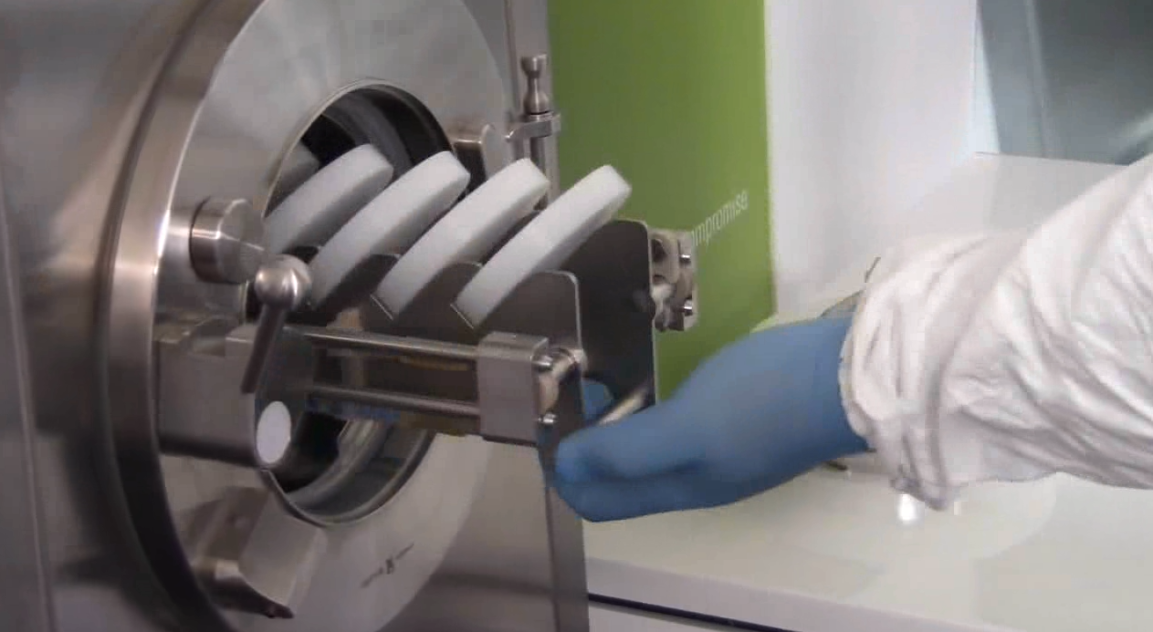 Inserting petri dishes with the aid of a drawer system